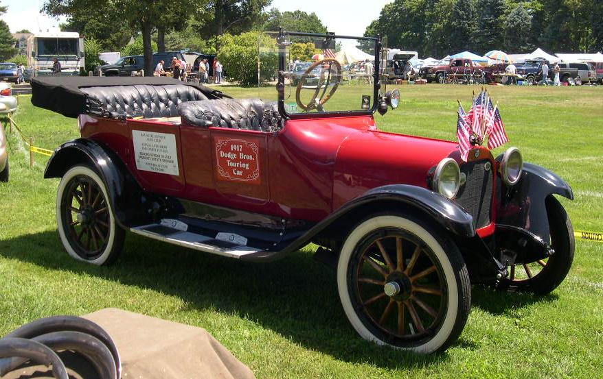 1917 Dodge Touring Car Source: Photographed at the Bay State Antique Automobile Club's July 10, 2005 show at the Endicott Estate in Dedham, MA by User:Sfoskett